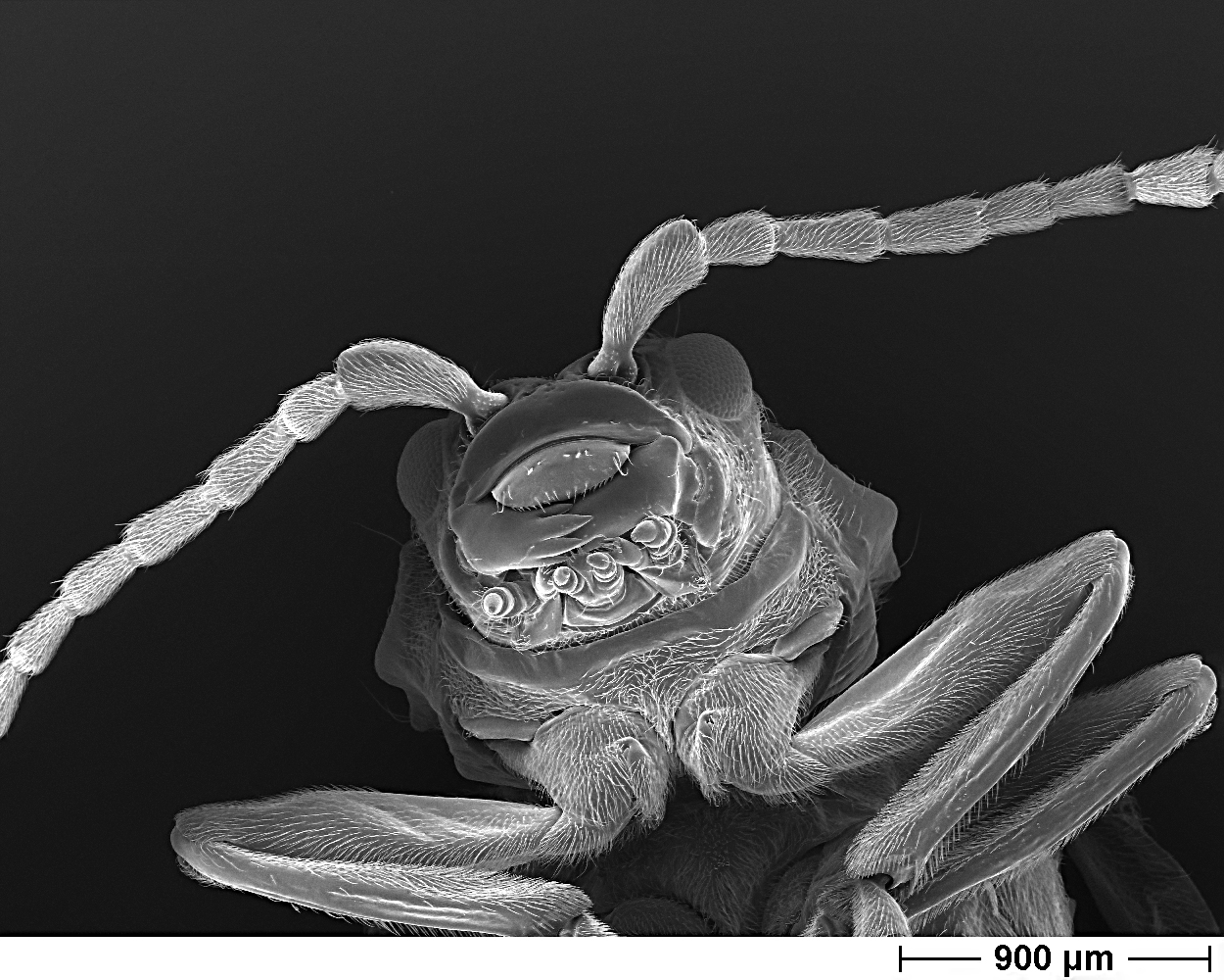 Head of Galerucella nymphaeae, Scanning Electron Microscope